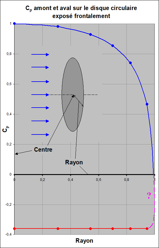 Pressure distribution on the circular disc, according to Low-Speed-Experiments on the Wake Characteristics of Flat Plates normal to an Air Stream, R. FAIL, J. A. LAWFORD and R. C. W. EYRE [2]